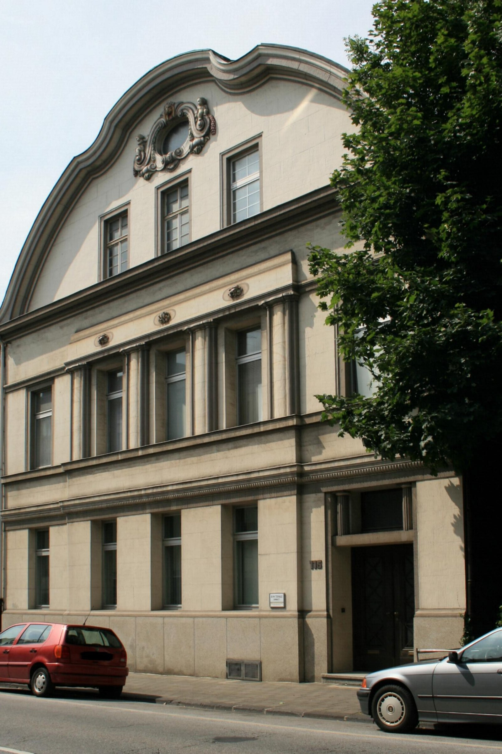 Cultural heritage monument No. F 016 in Mönchengladbach